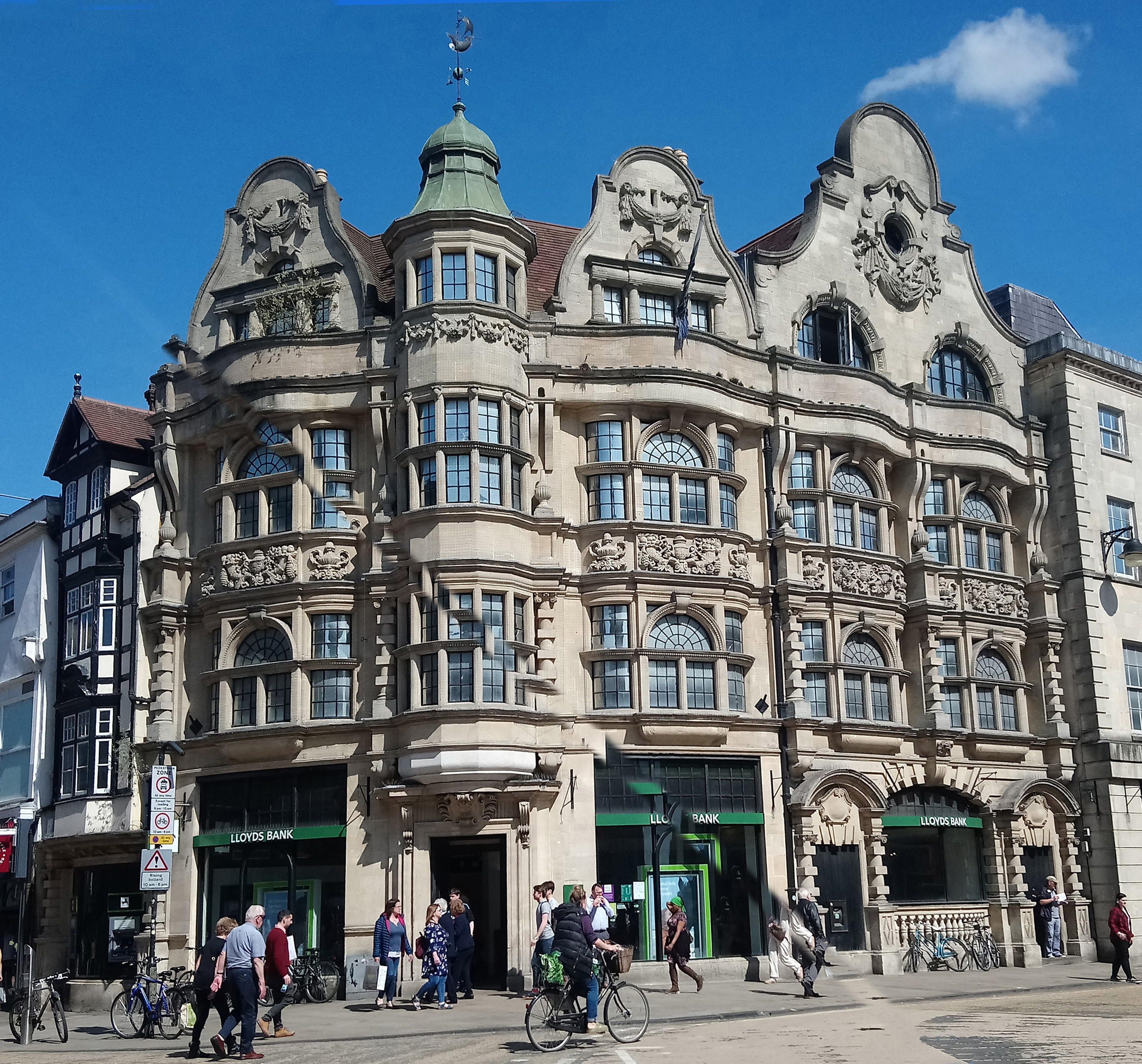 This building was part of a scheme to widen the Carfax junction. Phase 1 replaced 2 and 3 High Street on the right in 1900/1, and Phase 2 replaced 1 High Street and 1 Cornmarket Street on the left in 1902/3